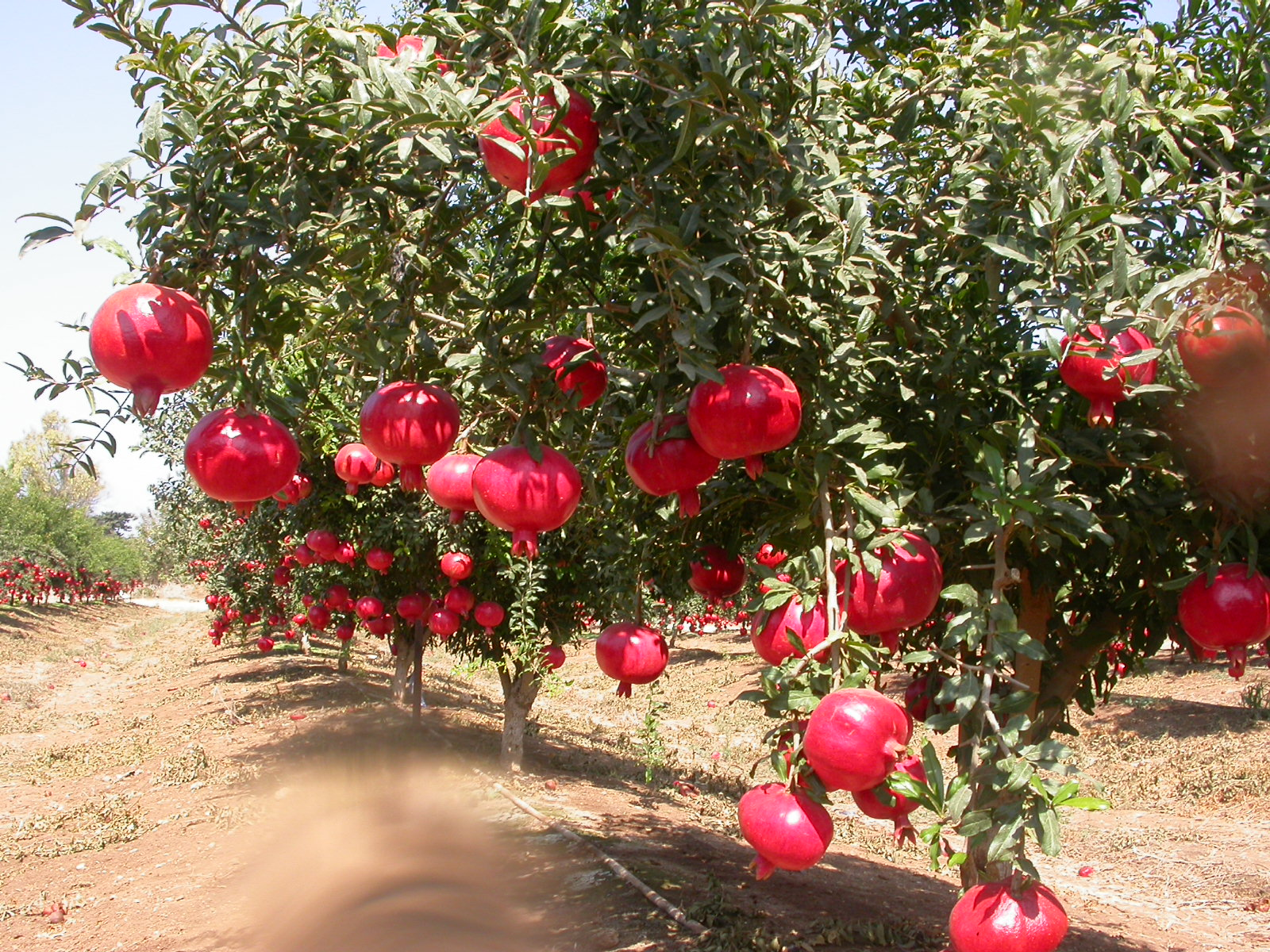 Farmer